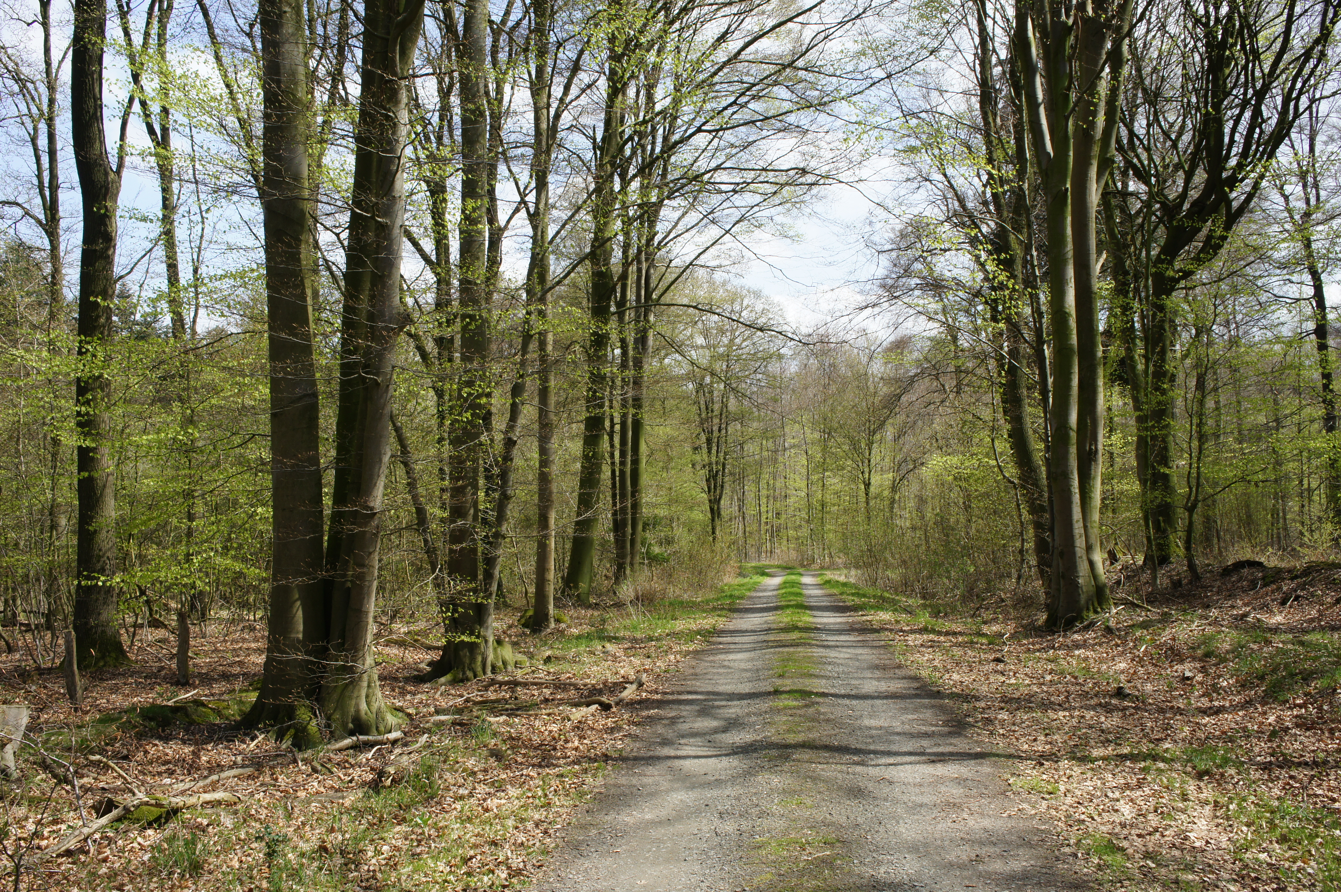 Beech tree in Stühe